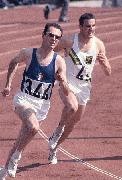 Livio Berruti (L) of Italy and Gary Holdsworth of Australia compete in the Men's 200m heat at the National Stadium during the Tokyo Olympic on October 16, 1964 in Tokyo, Japan.